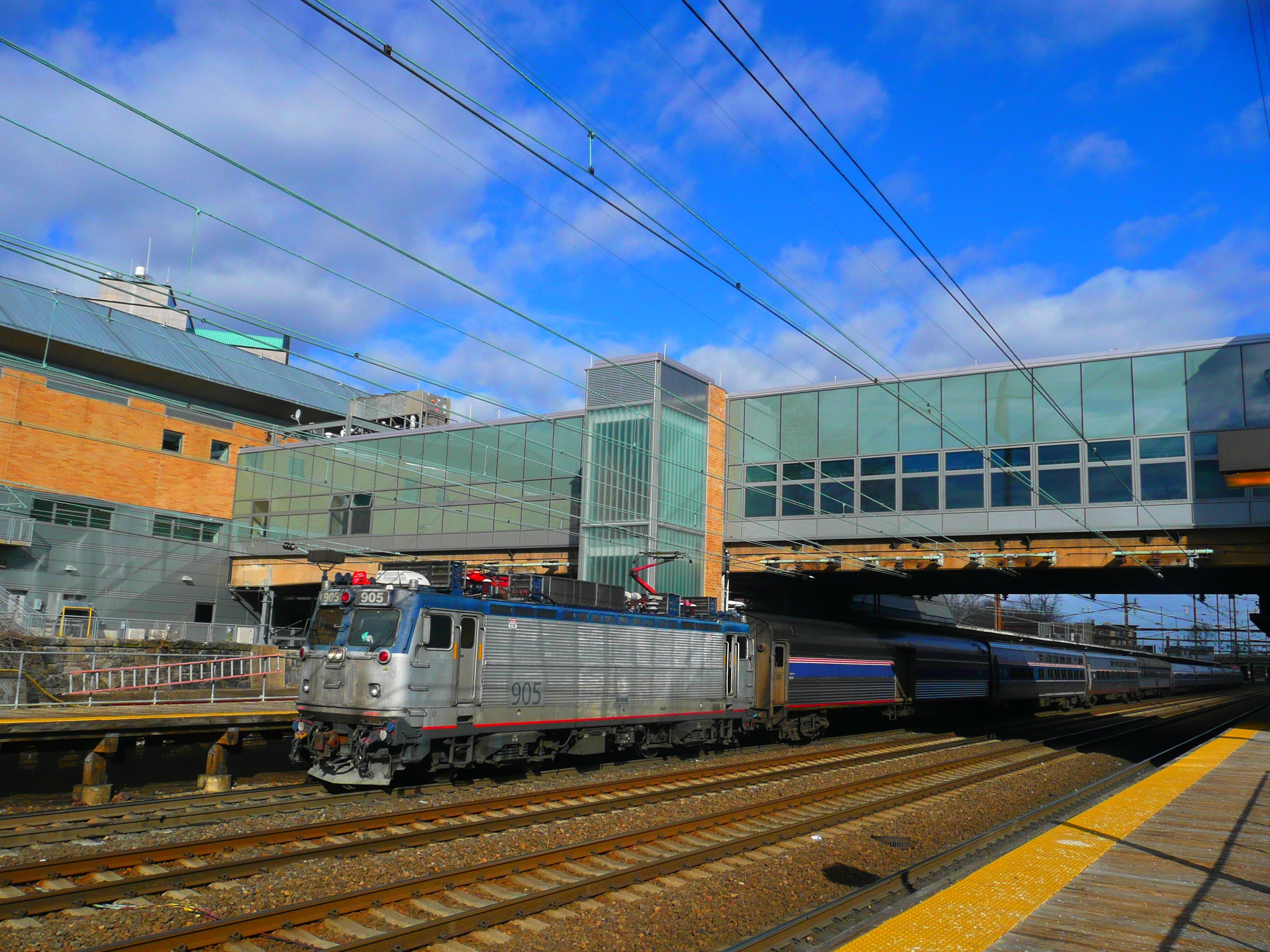 AEM-7 905 leads the Silver Star to Miami, stopping here at Trenton Transit Center